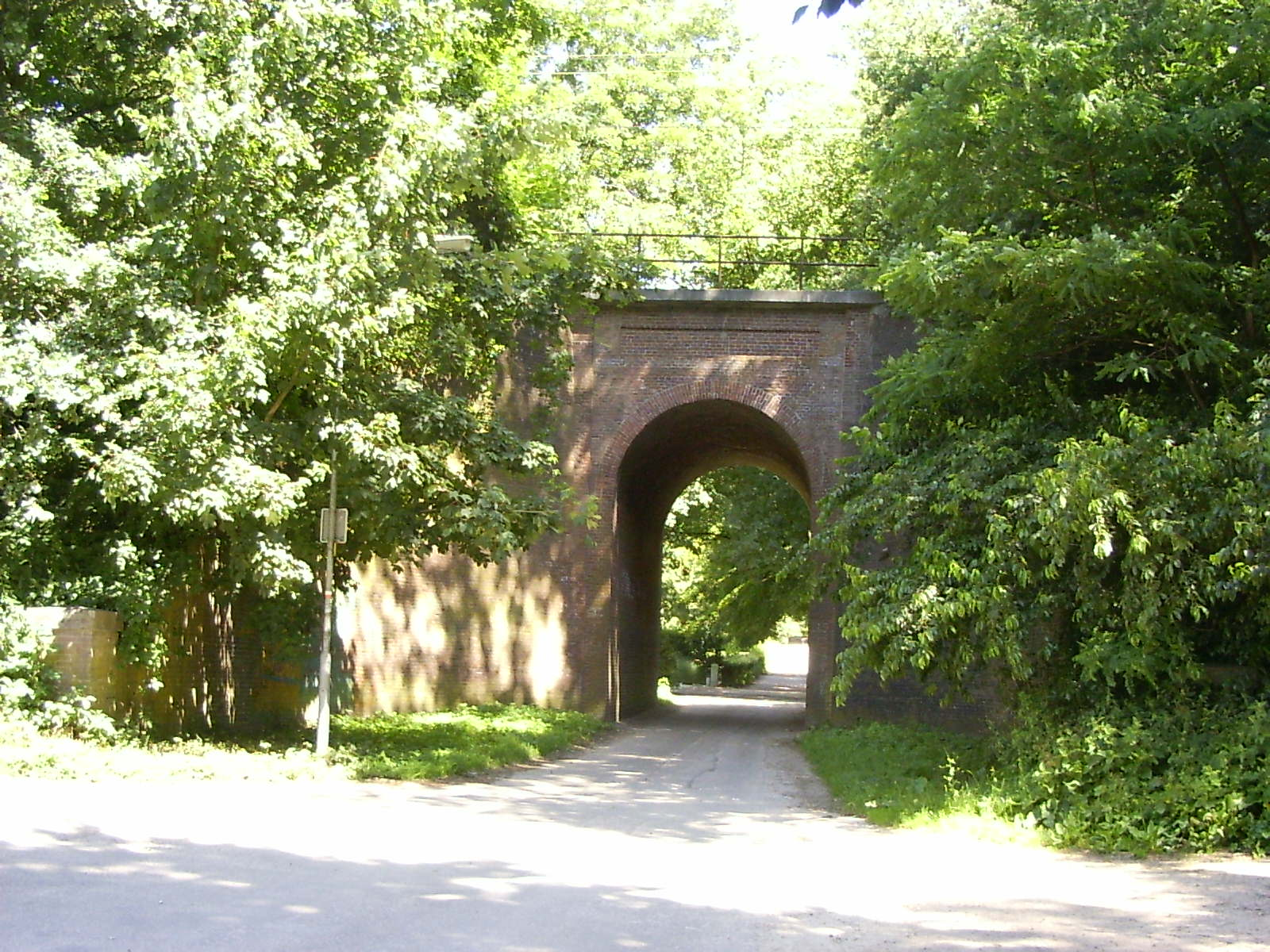 Mariendaal, railway bridge, Oosterbeek